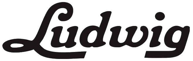 Logo of Ludwig, a drum kit manufacturer of the USA.